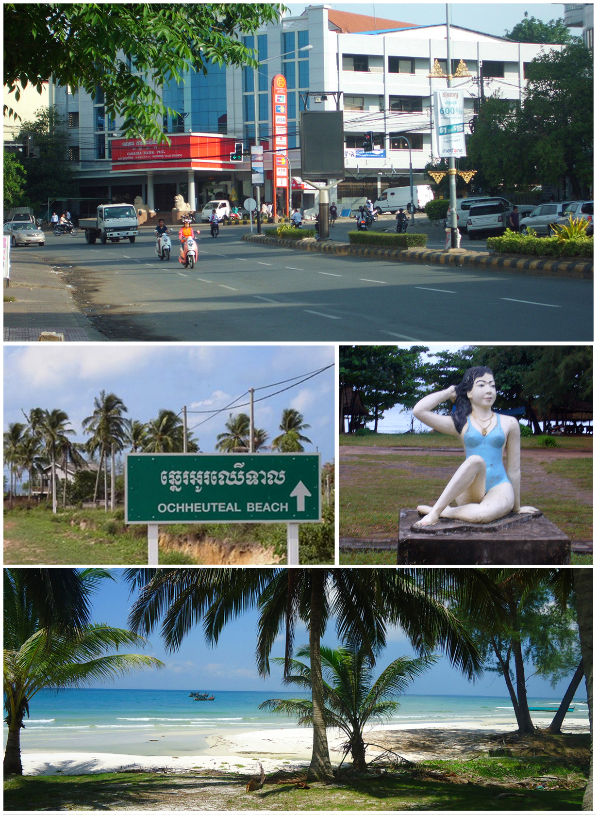 town center (top), Ochheuteal Beach road-sign (center-left), sculpture at Independence Beach (center-right), Koh Rong Island coconut grove (bottom)